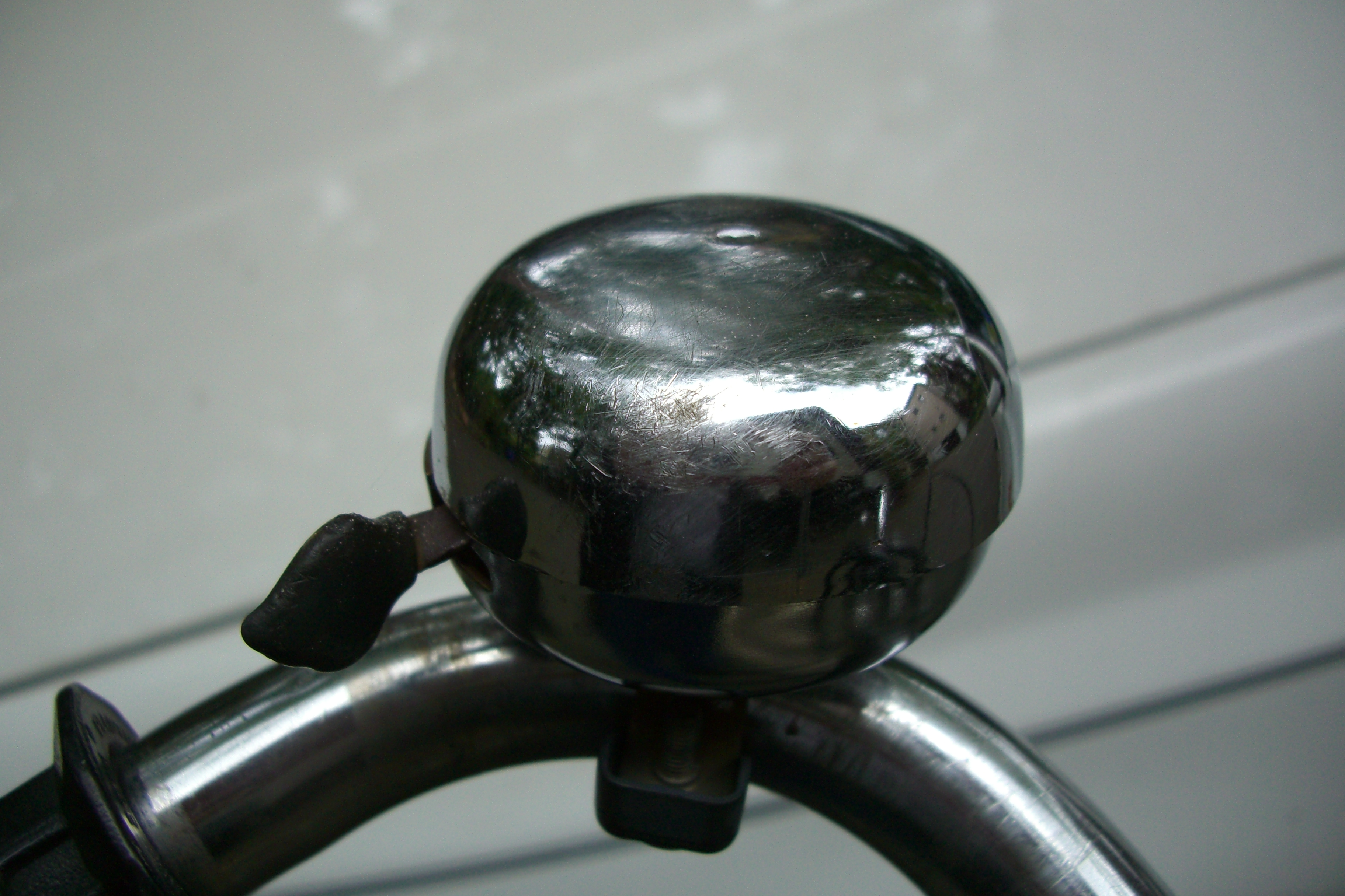 Bike bell